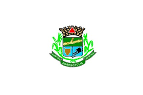 Flags of the city of Doresópolis, Minas Gerais, Brazil.